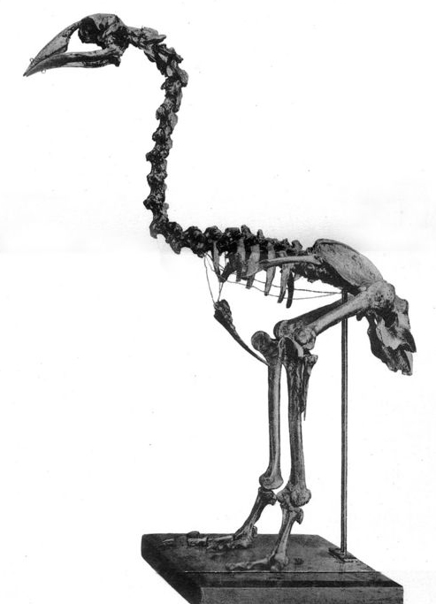 Skeleton of Aptornis otidiformis Owen in the Canterbury Museum.